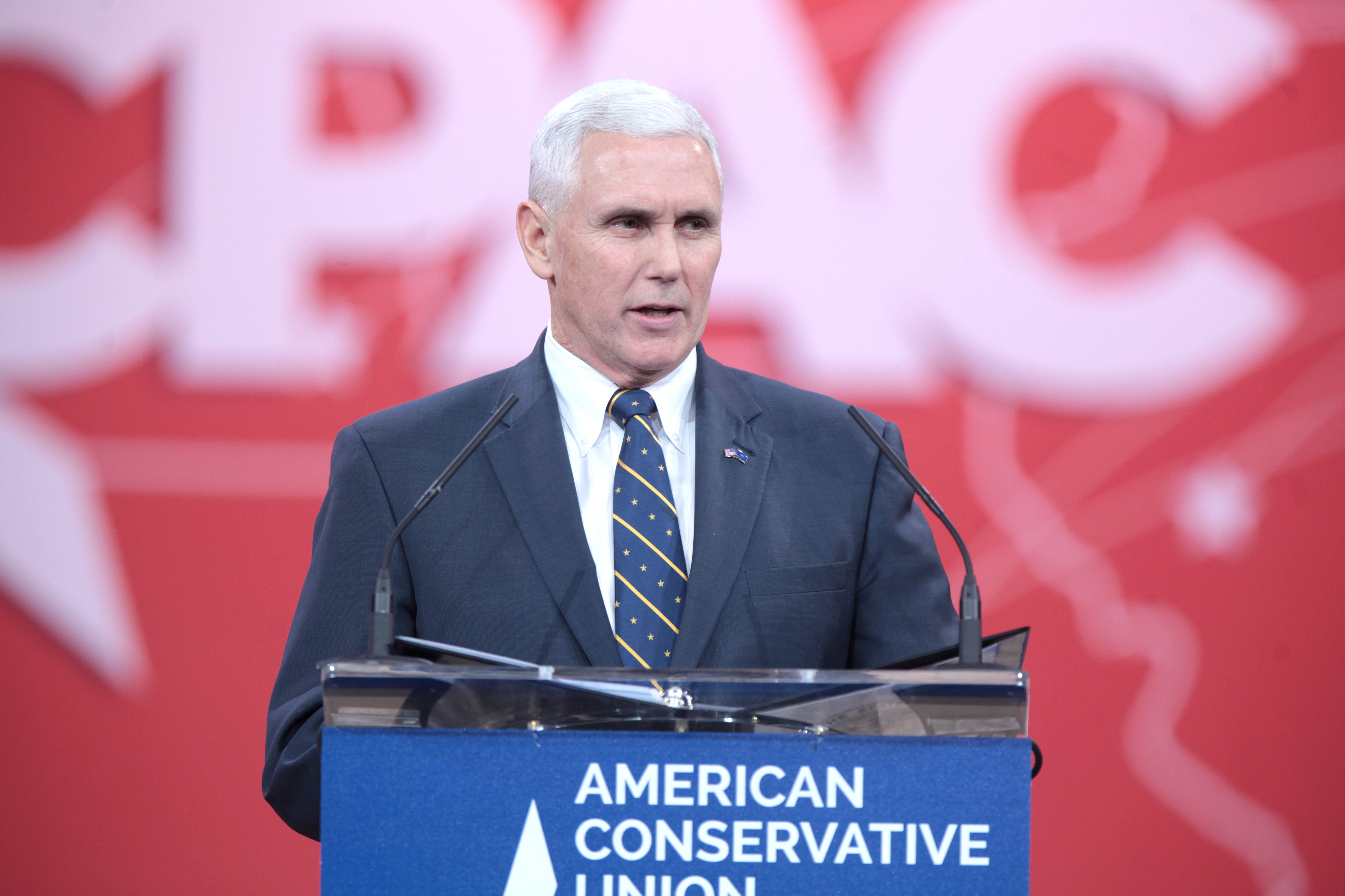 Governor Mike Pence of Indiana speaking at the 2015 Conservative Political Action Conference (CPAC) in National Harbor, Maryland.